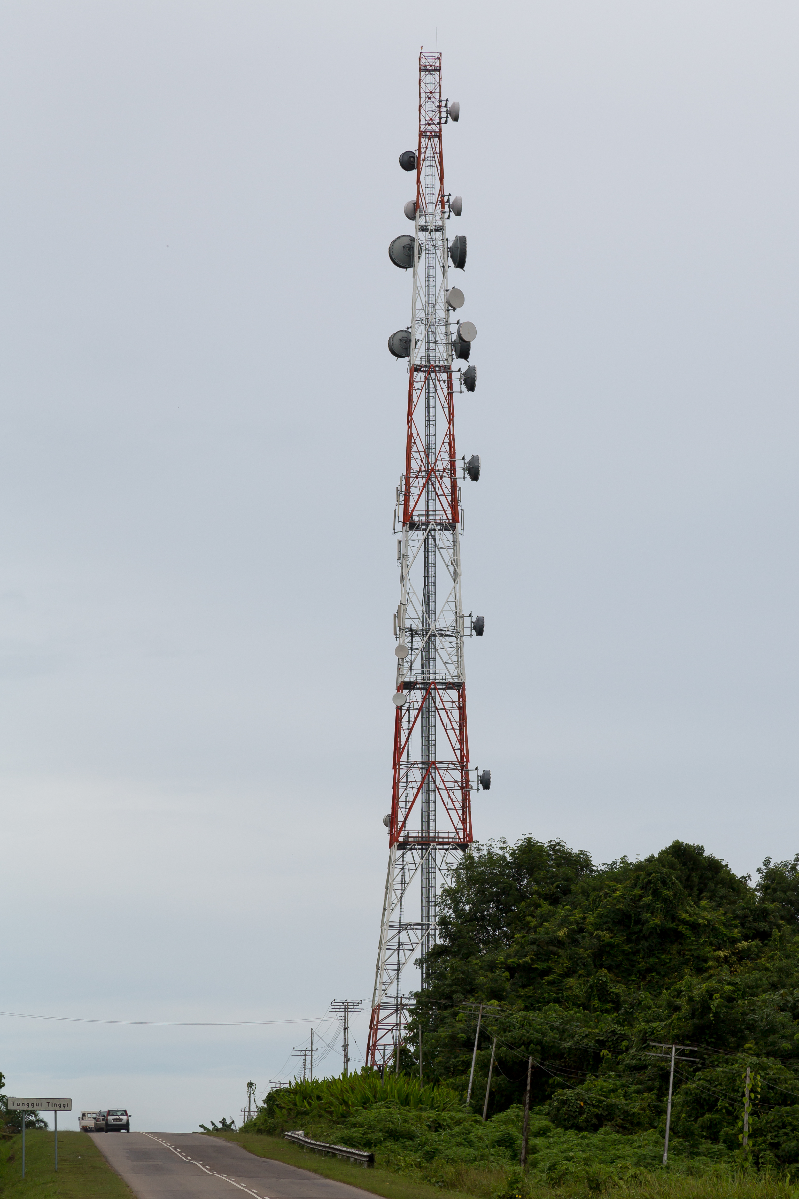 Sipitang, Sabah: Tunggul Tinggi Antenna Tower